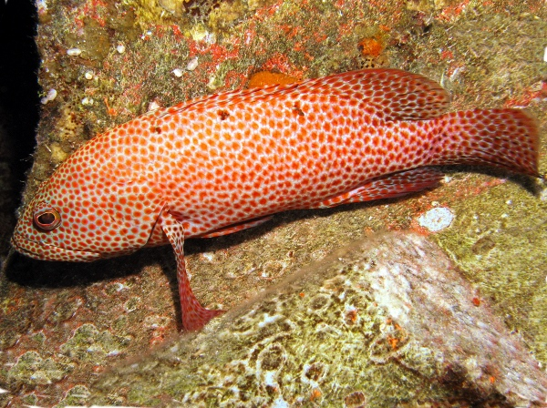 Graysby fish (Cephalopholis cruentata)